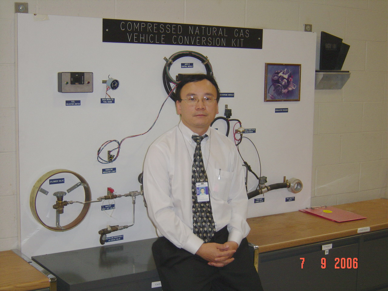 Han Dinh